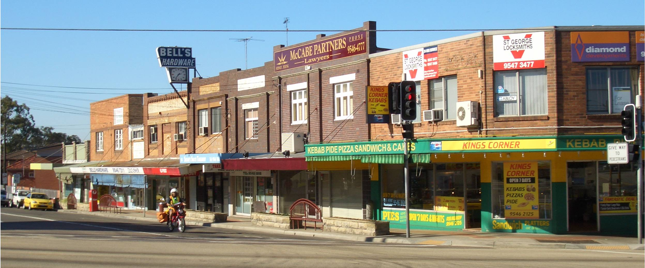 South Hurstville, Sydney, Australia. I took this photo on the 14th August 2006. J Bar 03:56, 23 August 2006 (UTC)